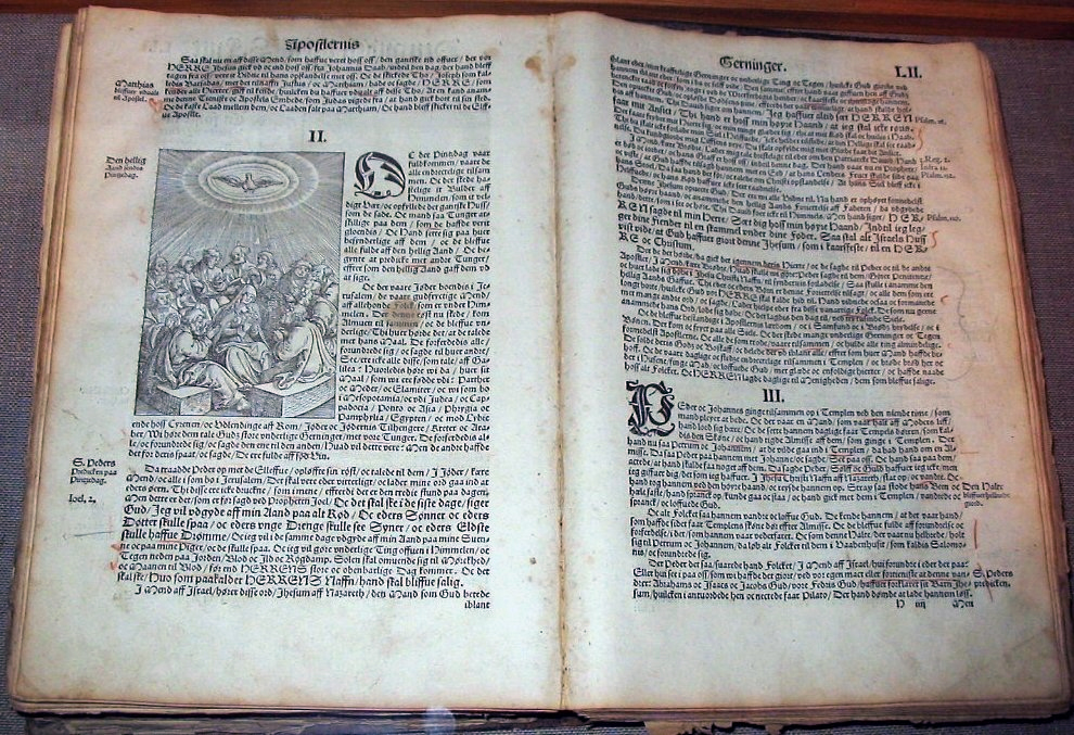 the Bible of Christian III of Denmark, the first Danish translation. Printed in Copenhagen, 1550 in 3000 copies